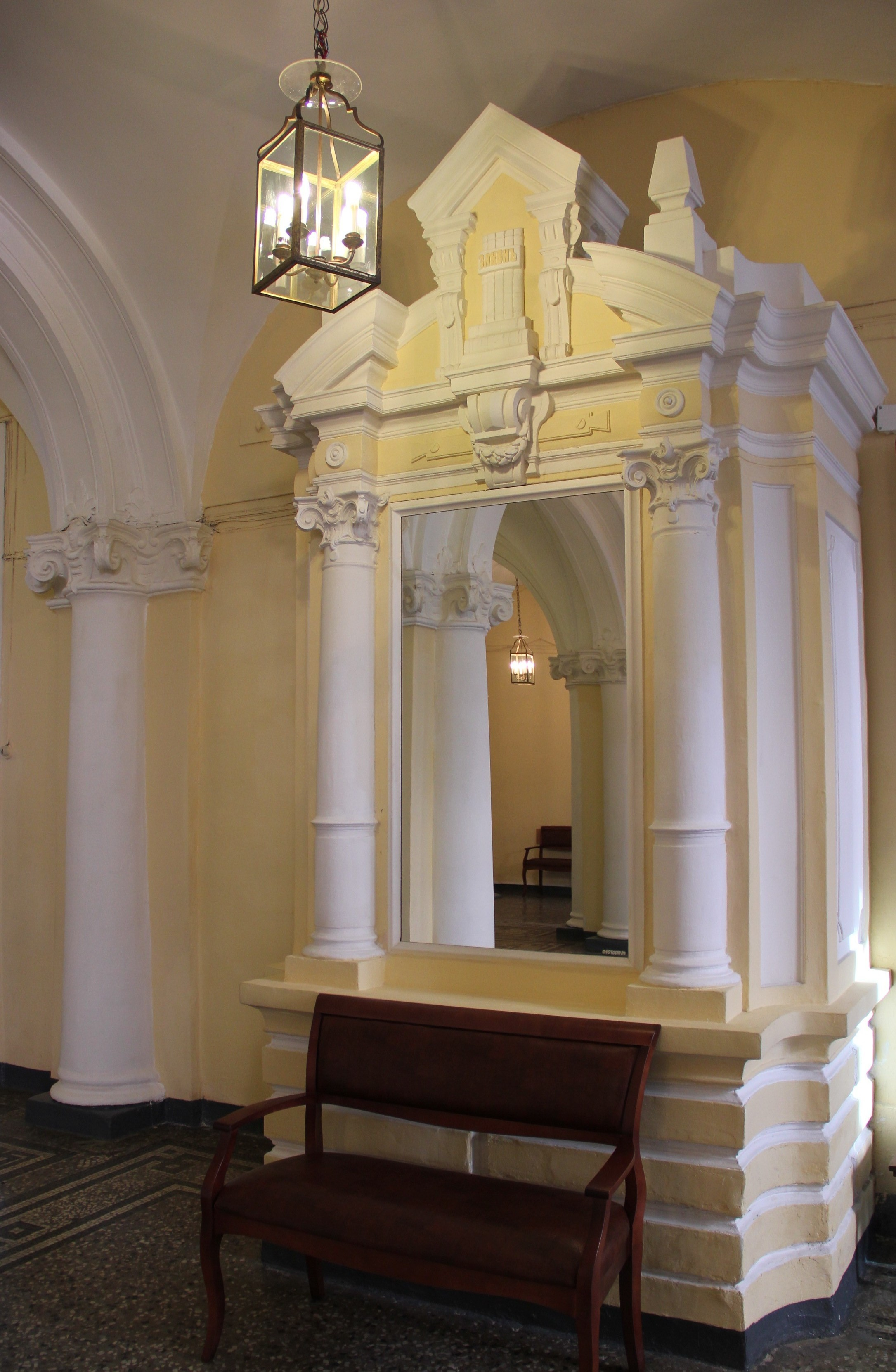 The mirror in the vestibule with inscription - "law"